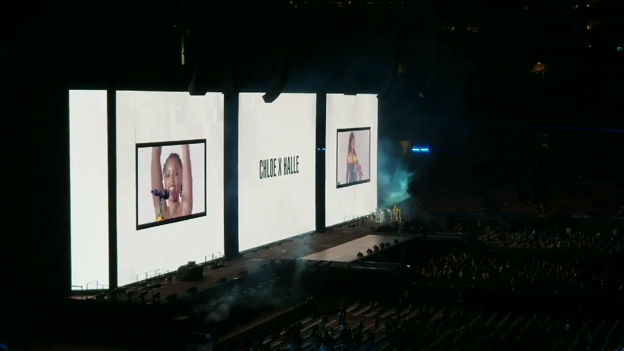 Chloe x Halle opening the On The Run: II tour in Los Angeles before Jay-Z and Beyoncé came out on stage.